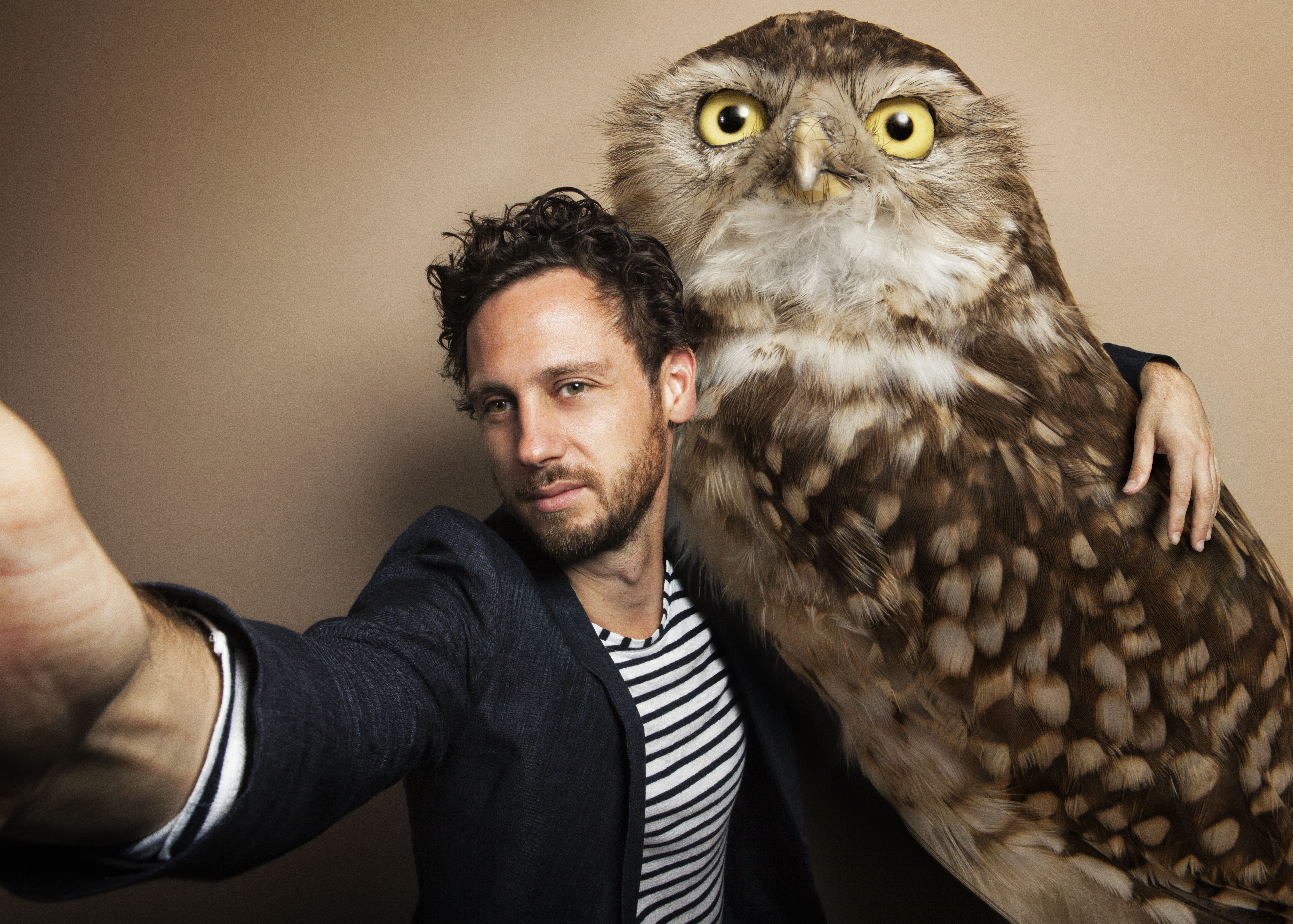 msdosdfdsf